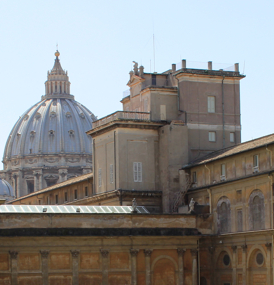 View on the Tower of Winds (Gregorian tower) in Vatican City (with the dome of Saint Peter's Basilica in the background).